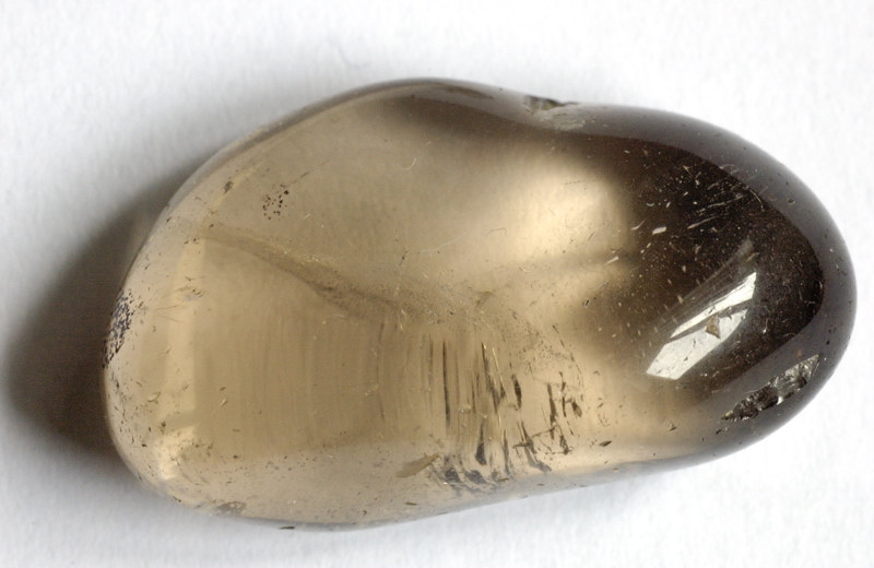 Smoky quartz